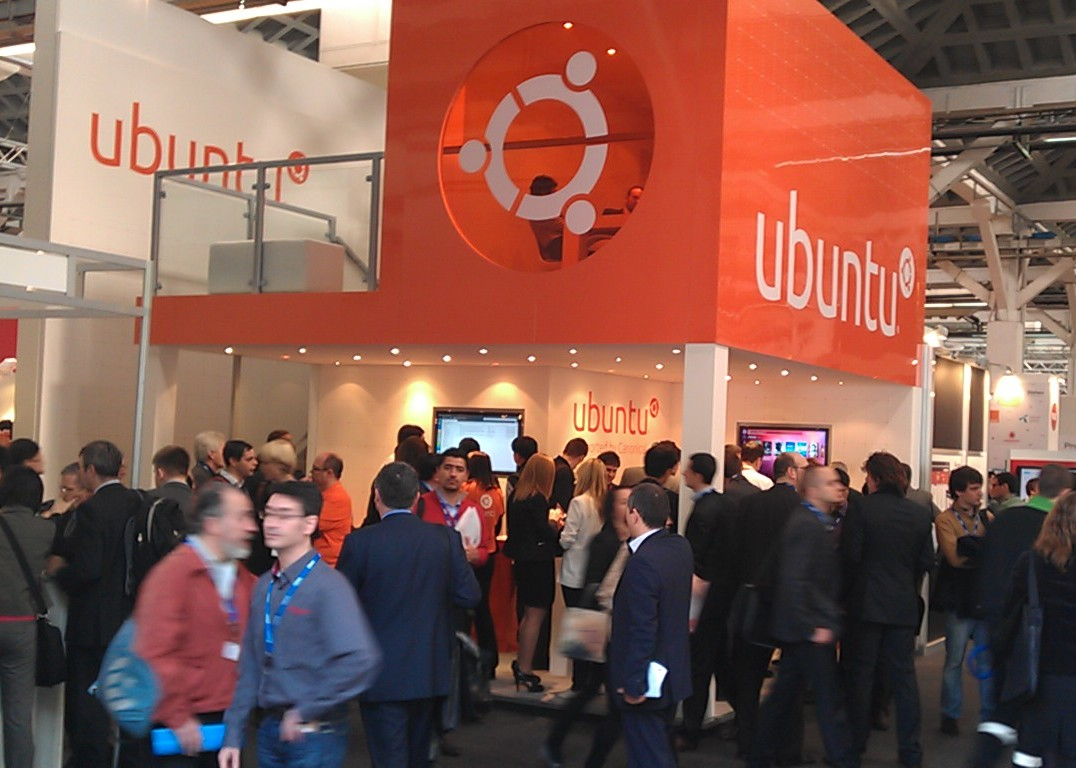 Ubuntu at Mobile World Congress.